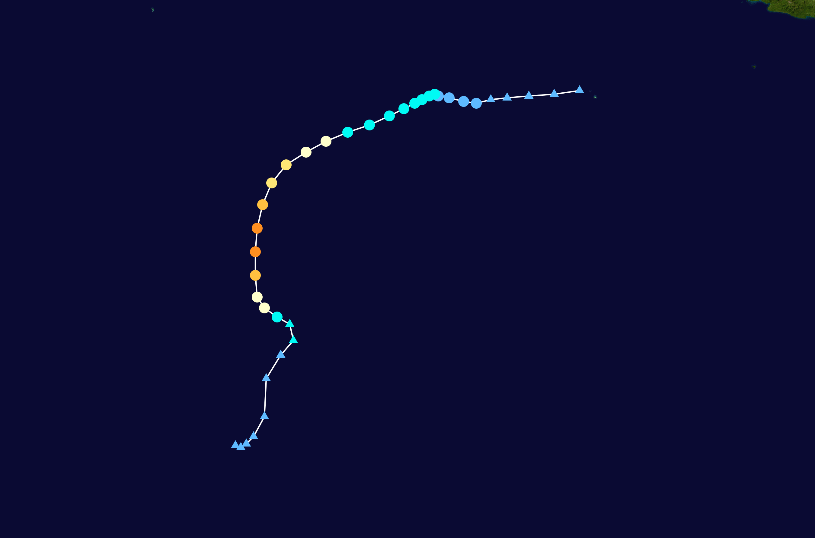 Track map of Intense Tropical Cyclone Kamba of the 2007-08 South West Indian Ocean cyclone season. The points show the location of the storm at 6-hour intervals. The colour represents the storm's maximum sustained wind speeds as classified in the Saffir–Simpson scale (see below), and the shape of the data points represent the nature of the storm, according to the legend below. Saffir–Simpson scale Tropical depression≤38 mph≤62 km/h Category 3111–129 mph178–208 km/h Tropical storm39–73 mph63–118 km/h Category 4130–156 mph209–251 km/h Category 174–95 mph119–153 km/h Category 5≥157 mph≥252 km/h Category 296–110 mph154–177 km/h Unknown Storm type Tropical cyclone Subtropical cyclone Extratropical cyclone / Remnant low / Tropical disturbance / Monsoon depression